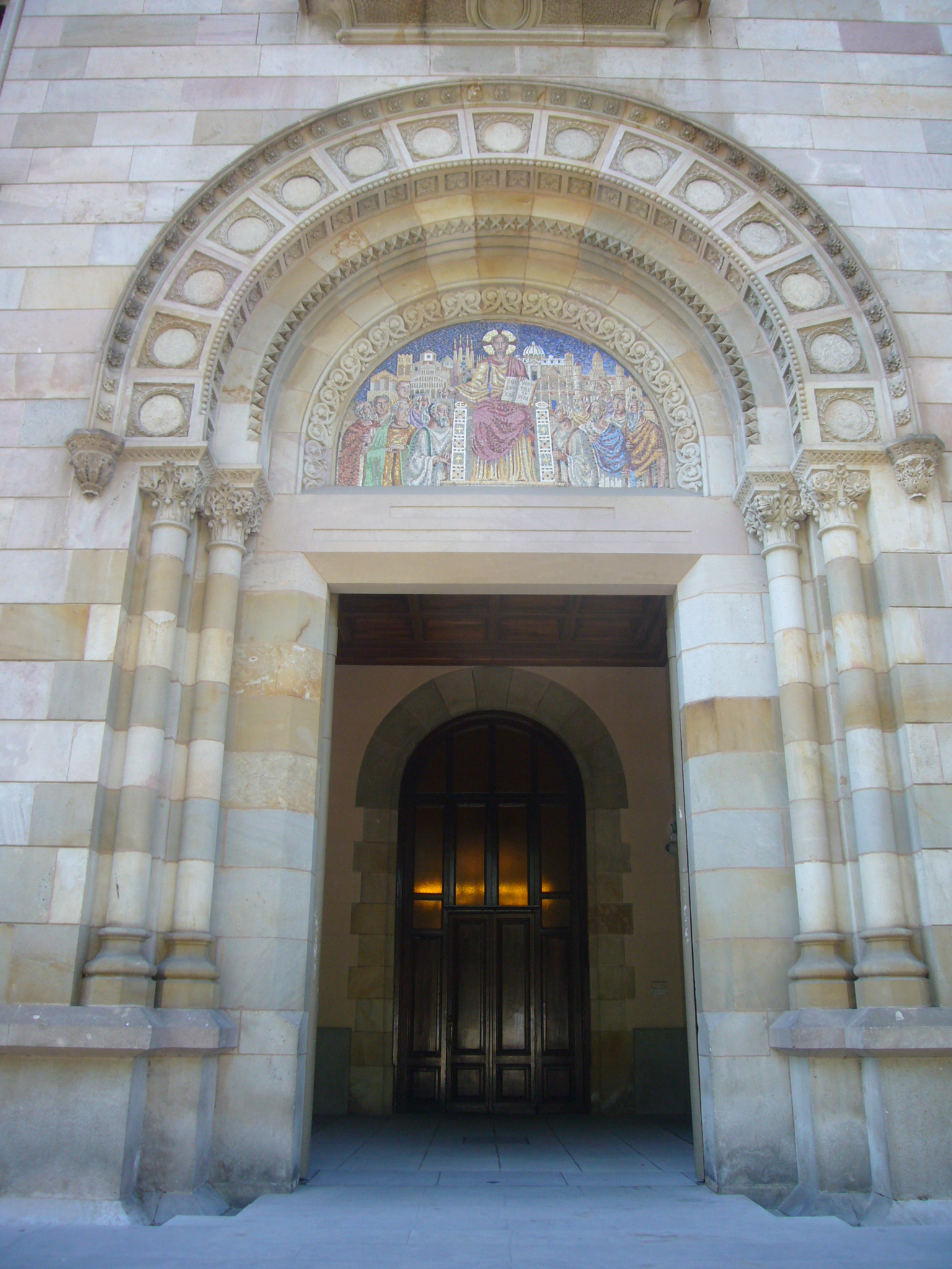 Building "Seminari Conciliar de Barcelona"